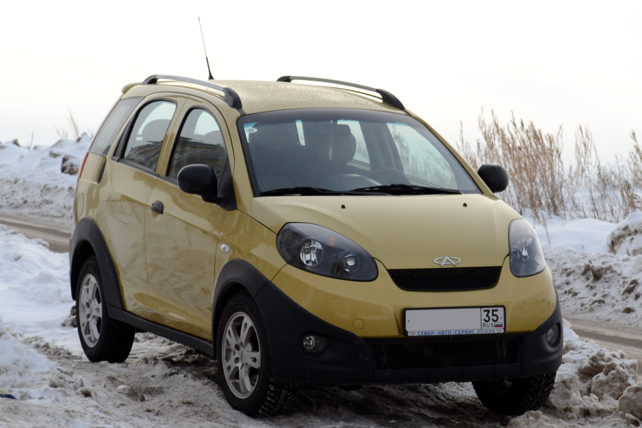 Chery IndiS in Russia (also known as Chery S18D)